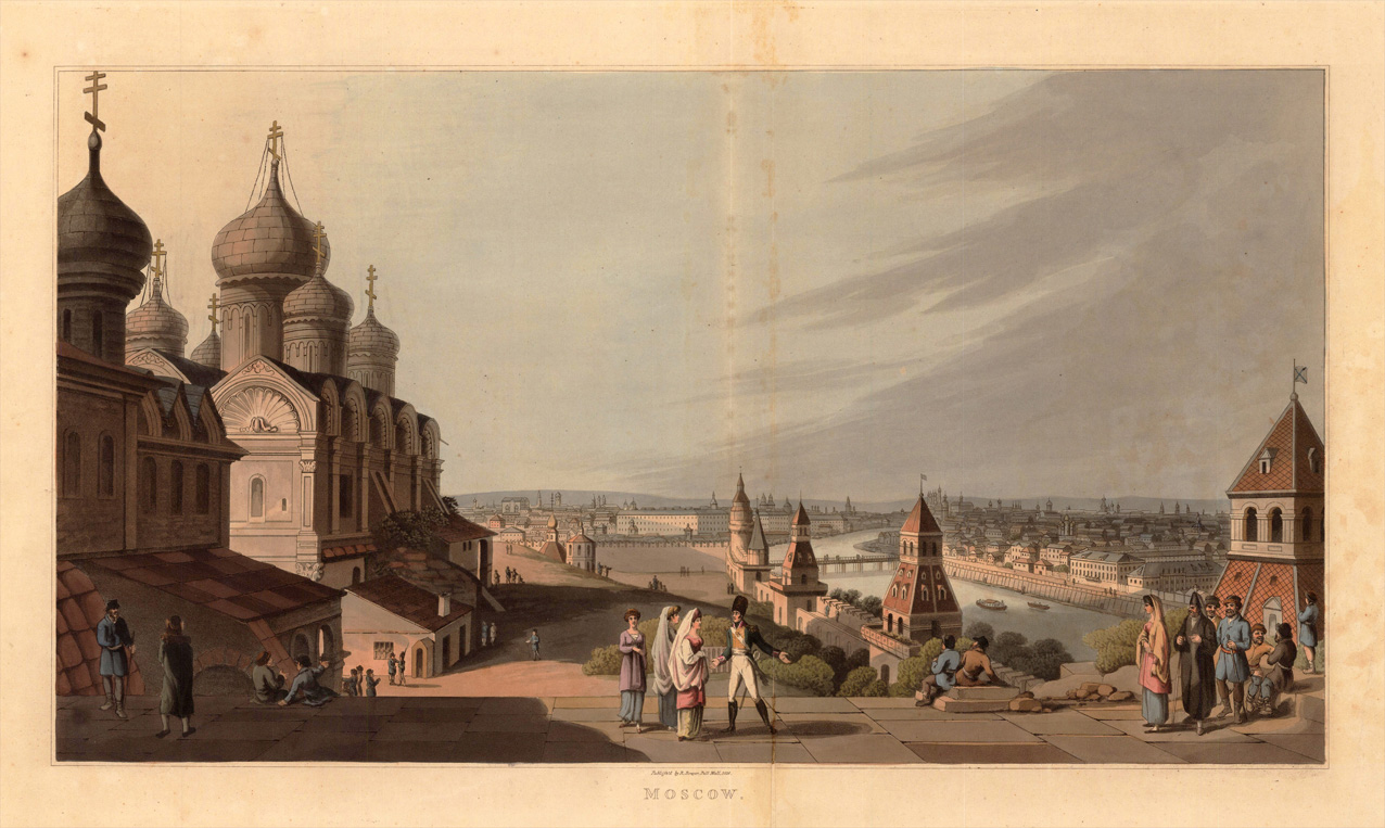 Moscow. London, Pall Mall 1814 [28,7 x 52 cm] Original aquatint hand colored in the period when published. Decorative panoramic city view of Moscow with the Kremlin in the foreground.